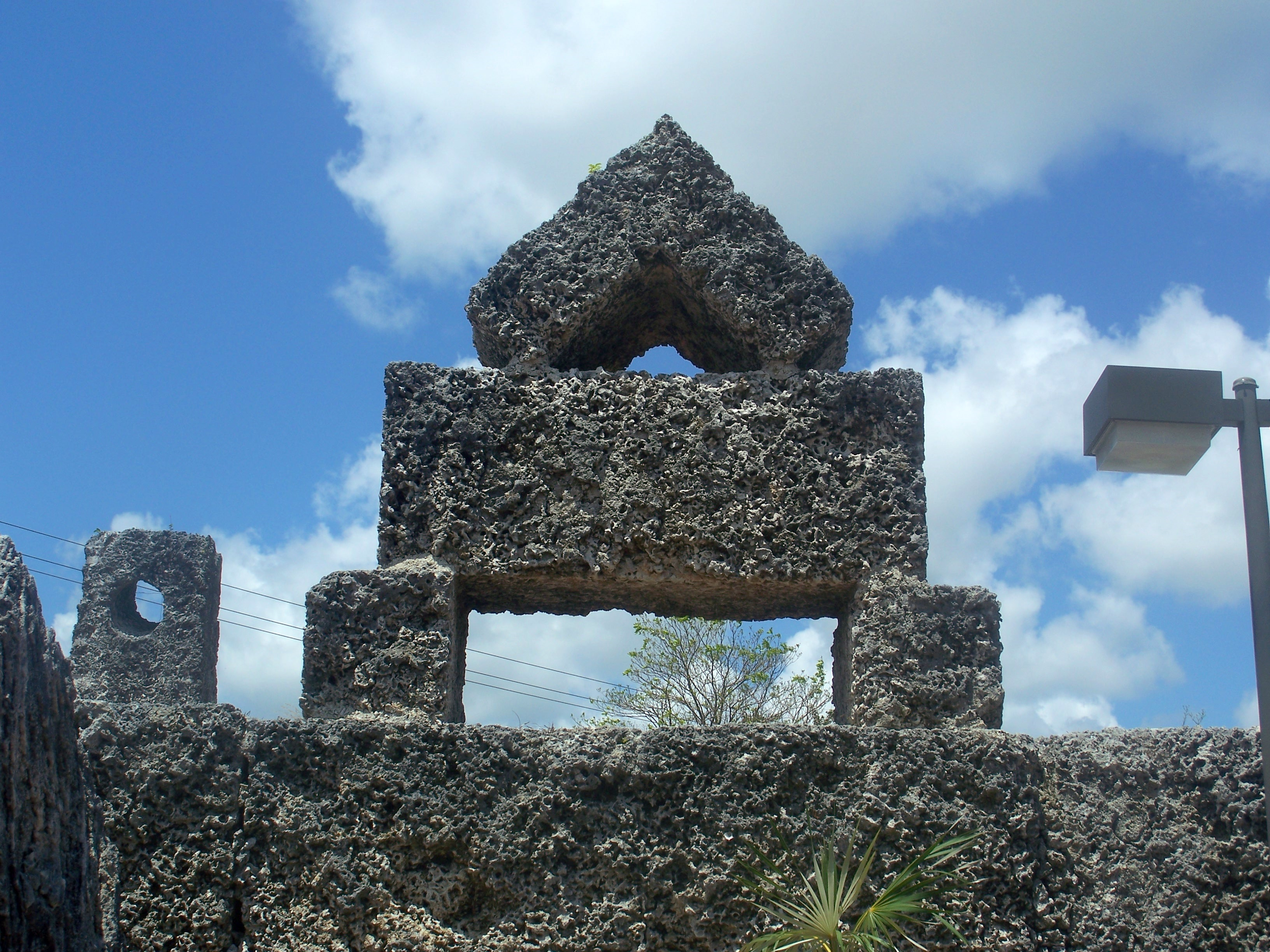 Homestead, Florida: Coral Castle: King stone